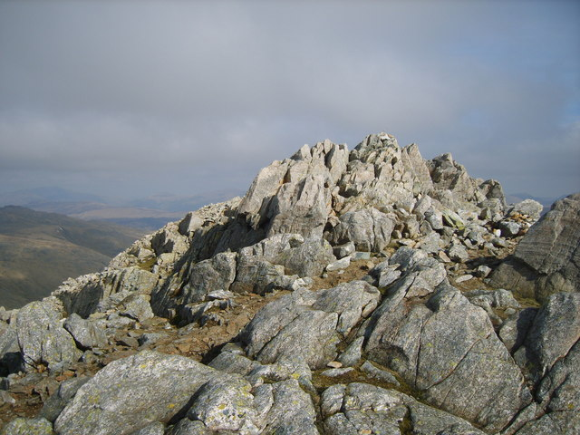 Esk Pike Summit Distinctive pale rocks on Esk Pike. Named Esk Pike relatively recently in 1870 by James Clifton Ward a Geologist. The summit was formerly known as Tongue Head